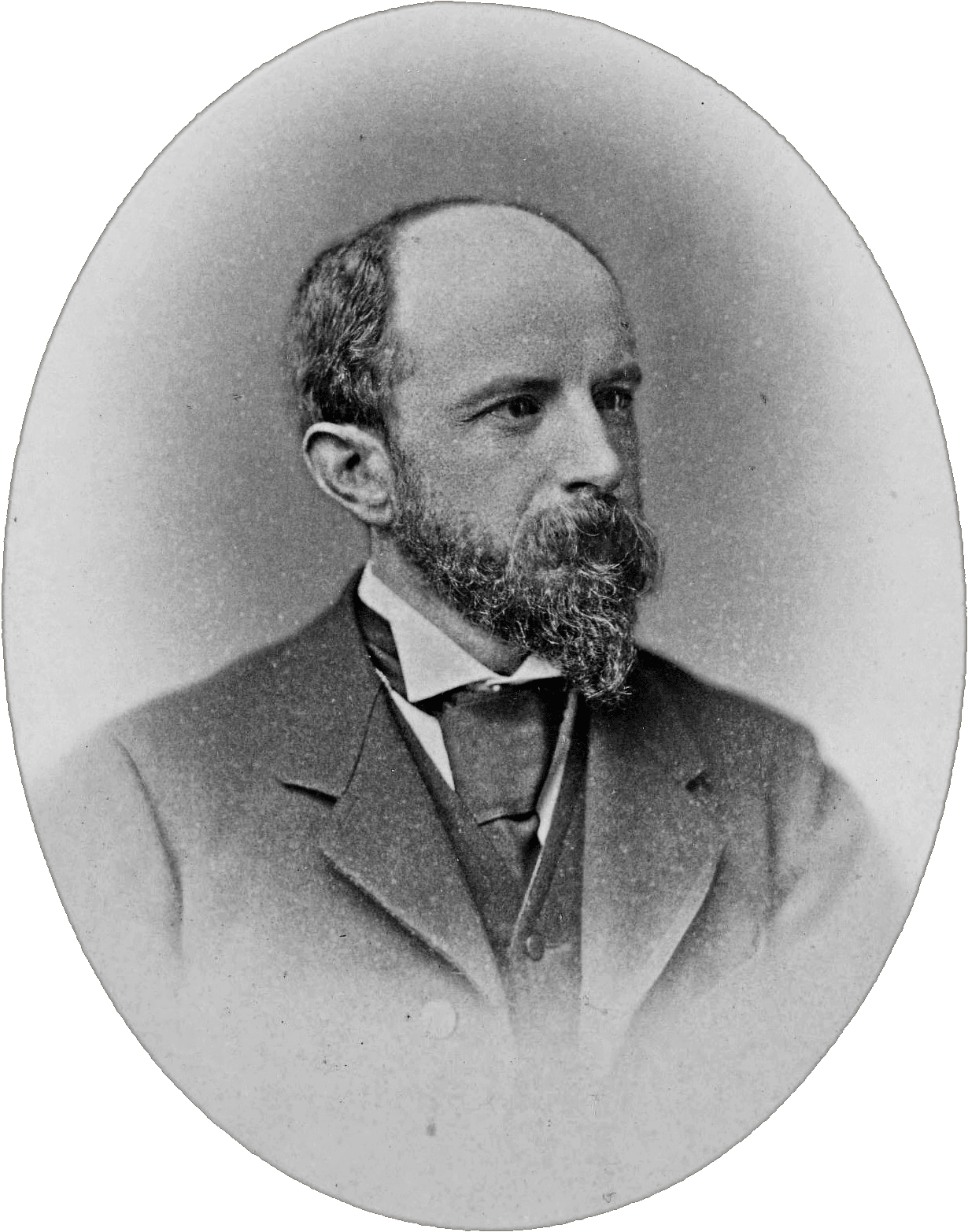 Henry Brooks Adams, American historian, circa 1885